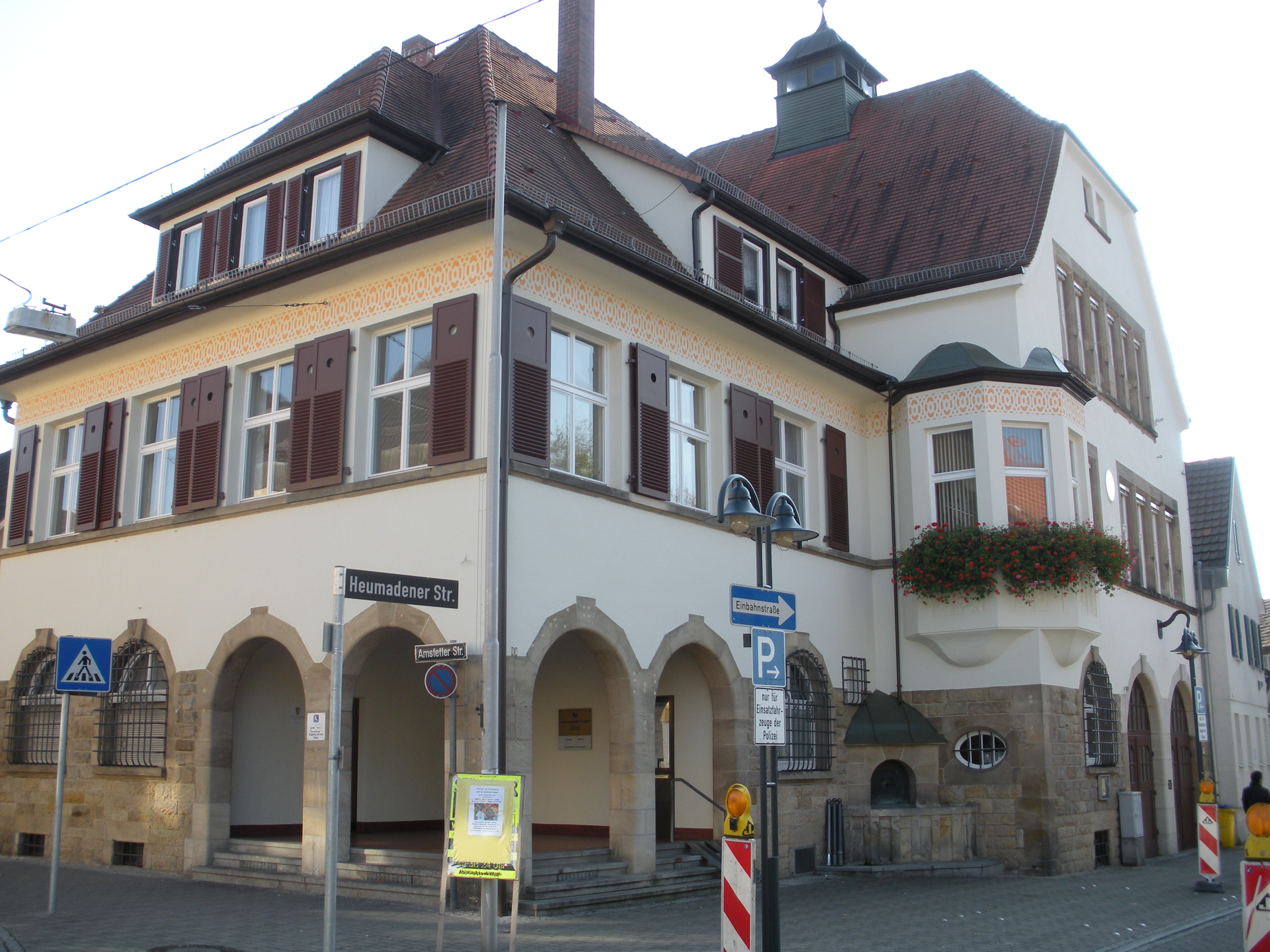 Town Hall in Stuttgart-Hedelfingen